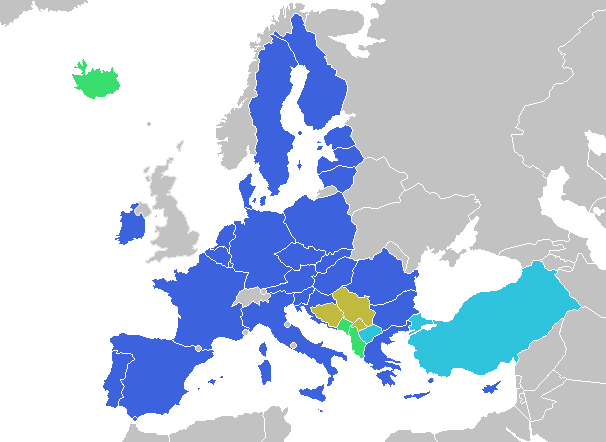 Future EU enlargement. Blue: EU. Dark green: Negotiation candidates. Light green: new candidates. Orange: applied. Yellow: potential candidates.